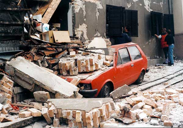 A street in Belgrade destroyed by NATO bombs. Zastava Koral Zastava badge